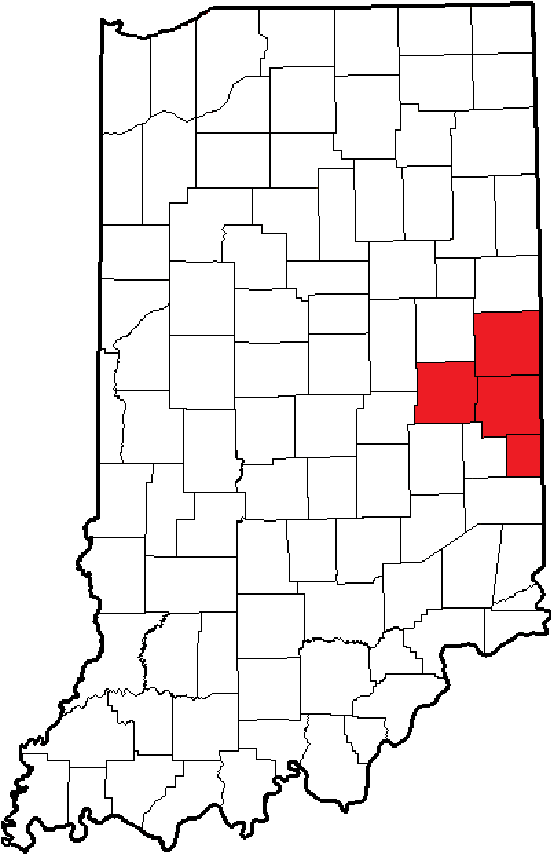 Tri-Eastern Conference within Indiana.